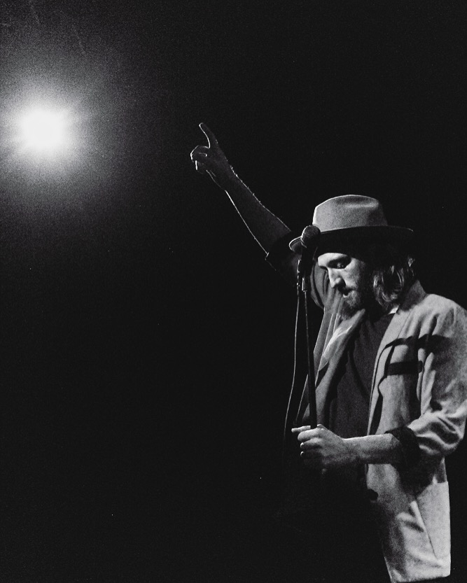 Lead singer, Travis Van Hoff during one of their concerts